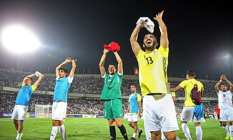 2018 FIFA World Cup qualification – AFC Third Round, Iran-Qatar